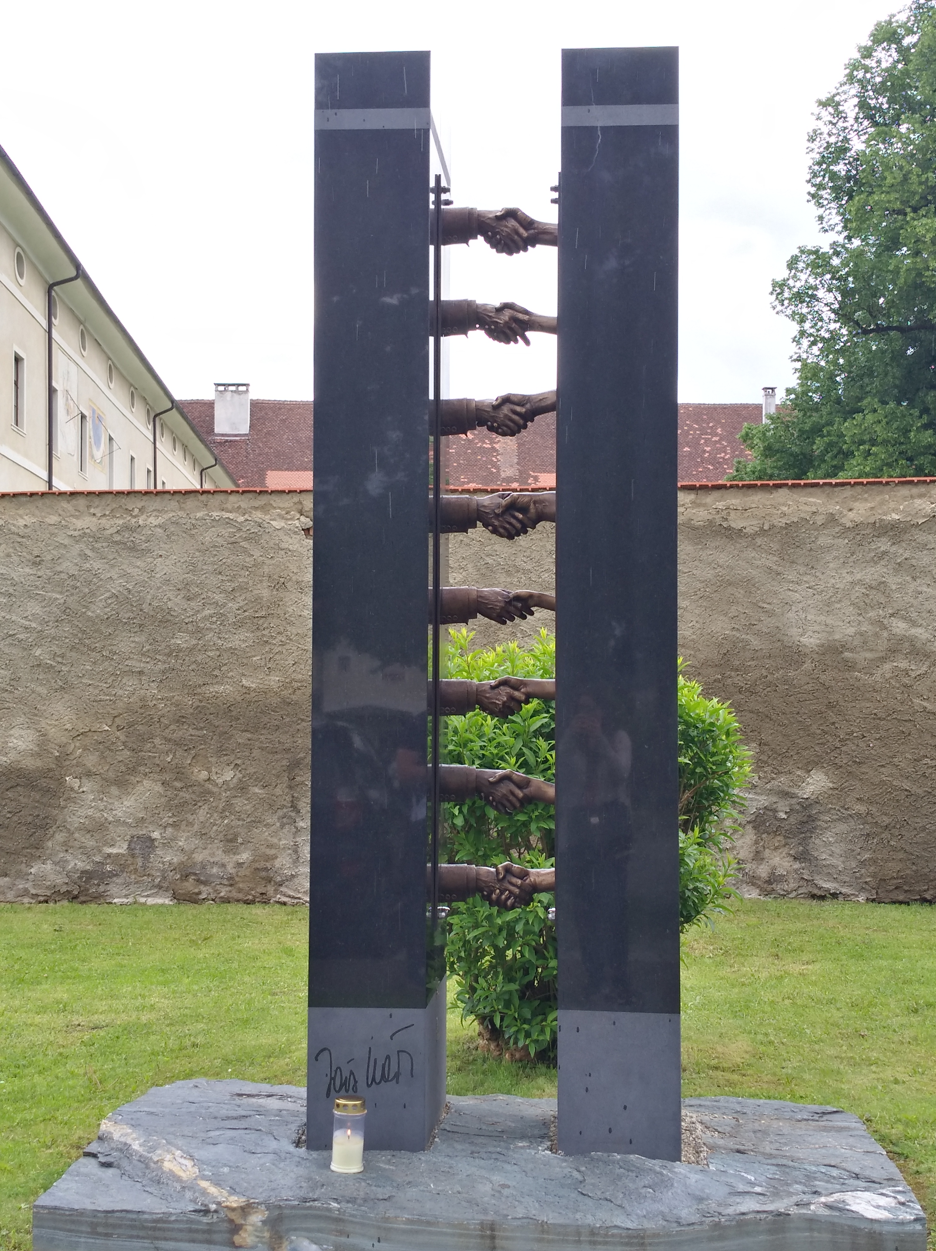 Connected hands